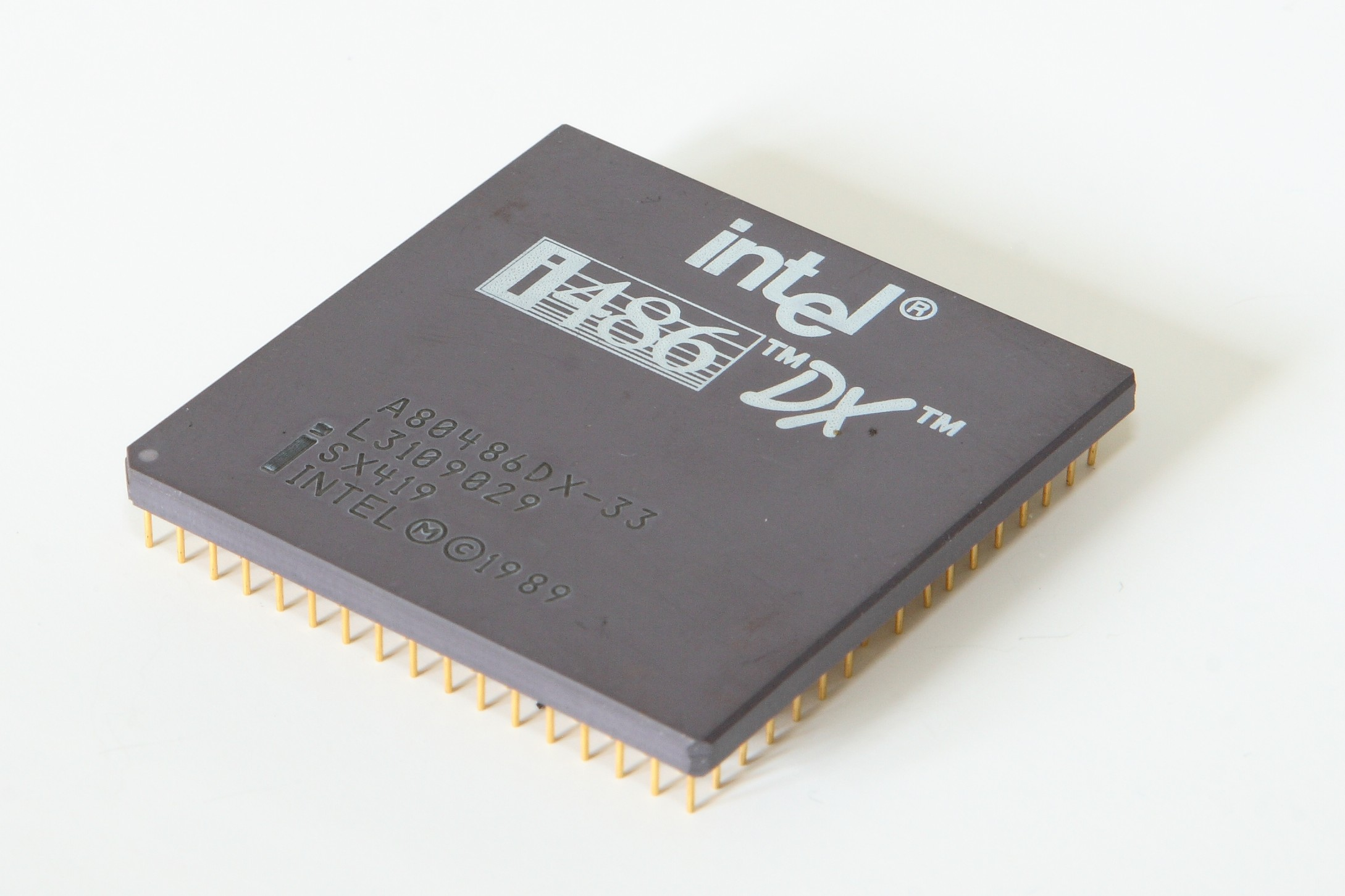 Intel i486 DX 33MHz Camera data Camera Canon EOS 30D Lens Canon EF 24-70 mm 2.8 L USM Focal length 70 mm Aperture f/19 Exposure time 15 s Sensivity ISO 100 Image Editing Programs Canon Digital Photo Professional